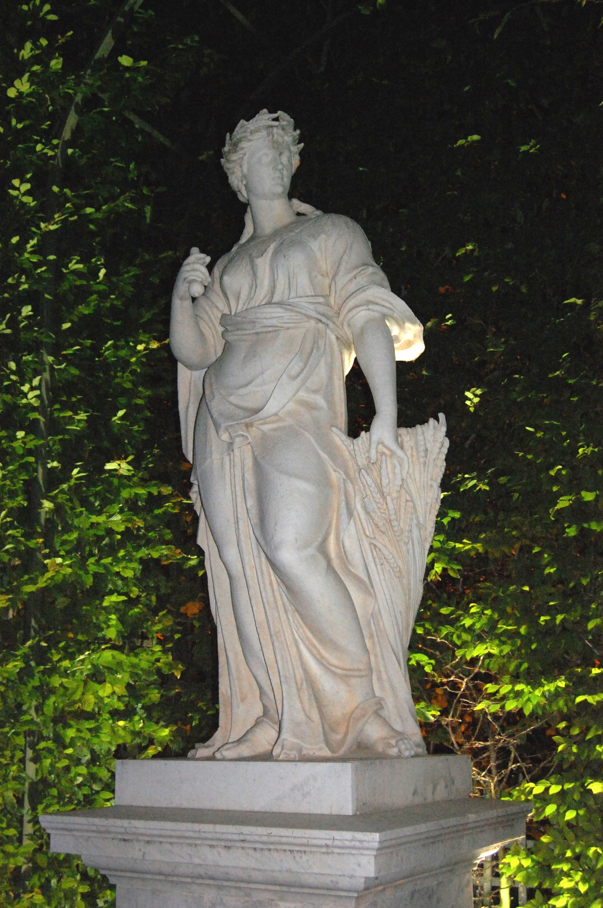 L’Été (Summer), by Pierre Hutinot